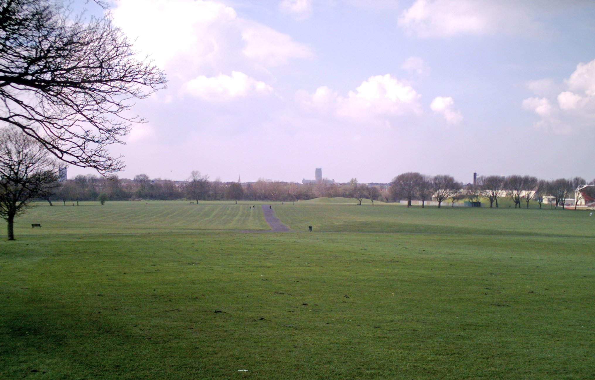 Anglican cathedral, Liverpool, from Wavertree Playground.